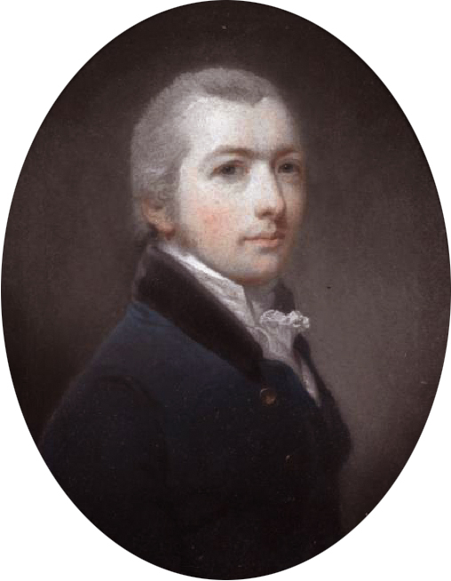 Cornelis Johannes Kneppelhout (1778-1818)